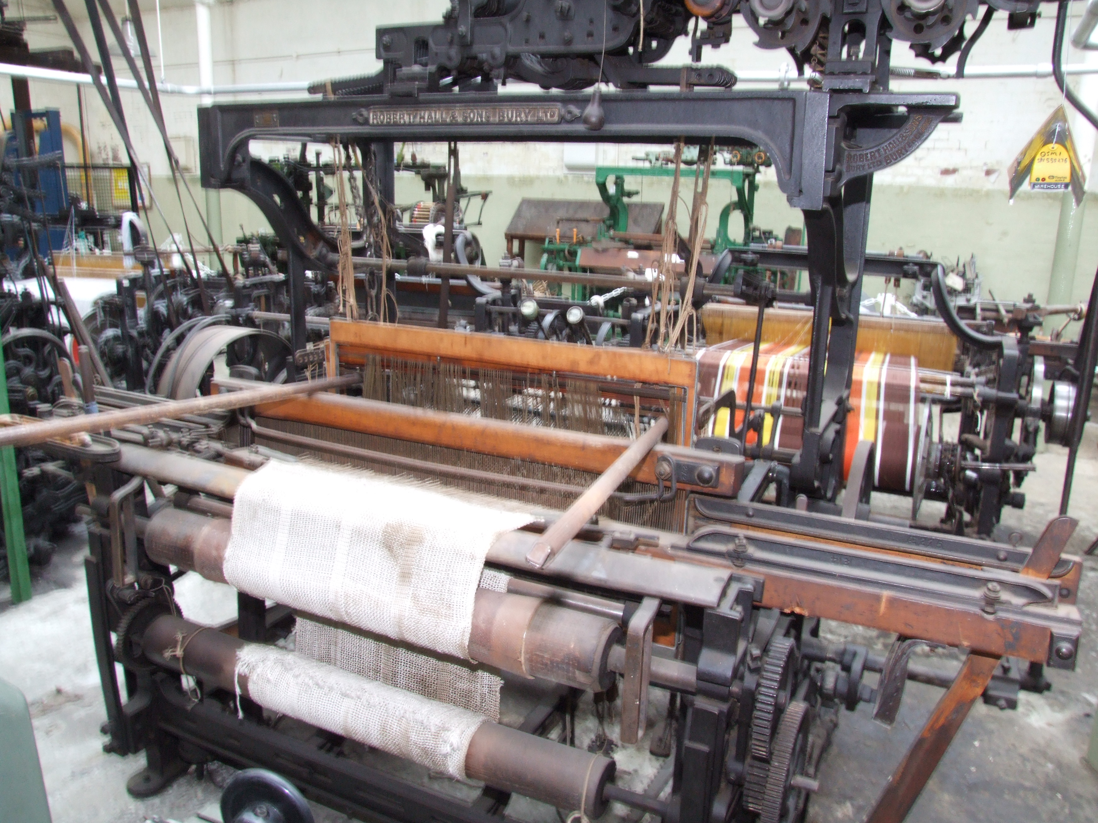 Queen Street Mill in Harle Syke, a suburb to the north-east of Burnley, Lancashire, was built in 1894 for the Queen Street Manufacturing Company. It closed on 12 March 1982 and was mothballed, but was subsequently taken over by Burnley Borough Council and used as a museum. In the 1990s ownership passed to Lancashire Museums. Unique in being the world's only surviving steam-driven weaving shed.